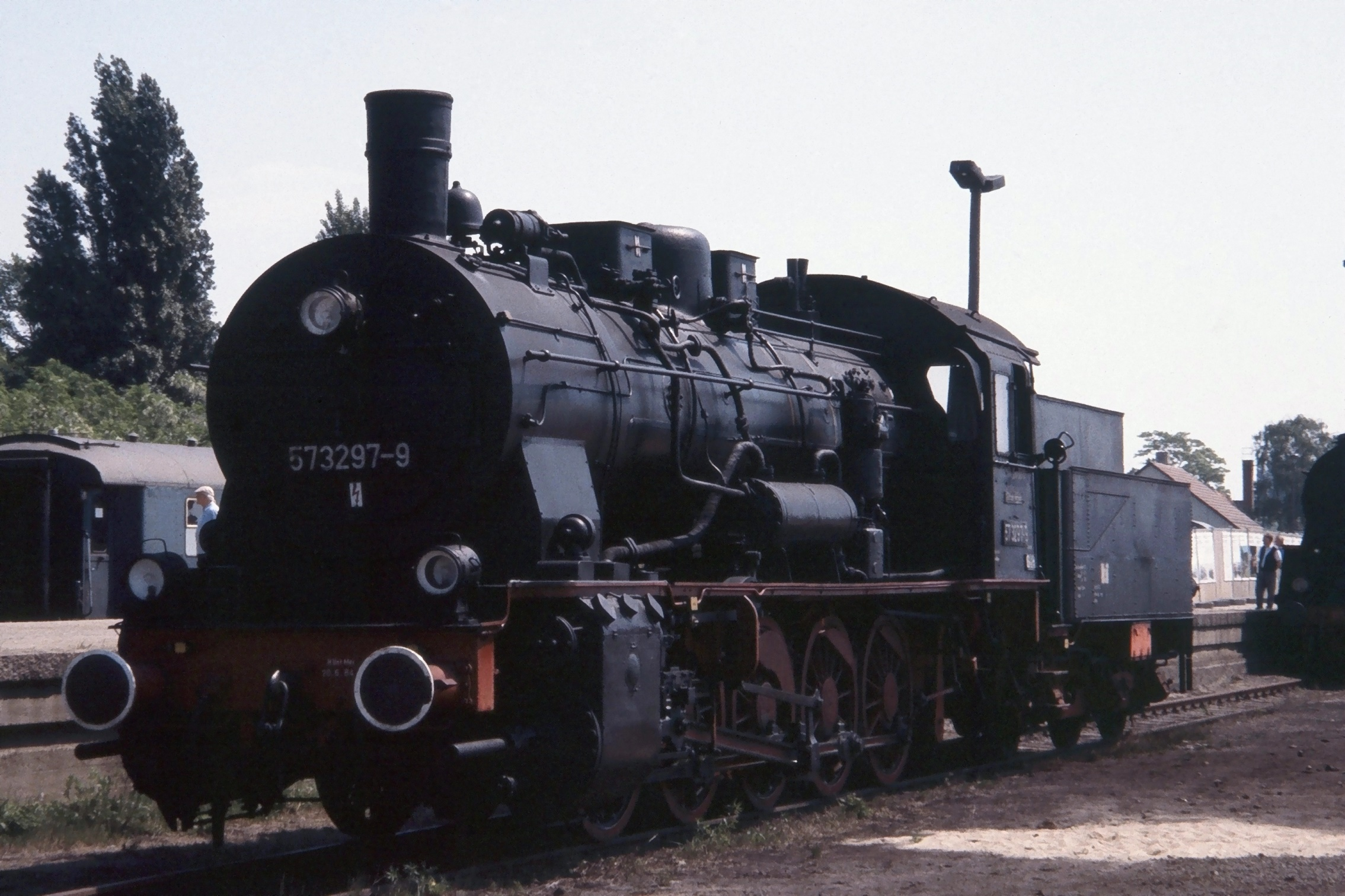 Prussian G 10 (DR 57 3297-9) des Verkehrsmuseums Dresden in Potsdam.